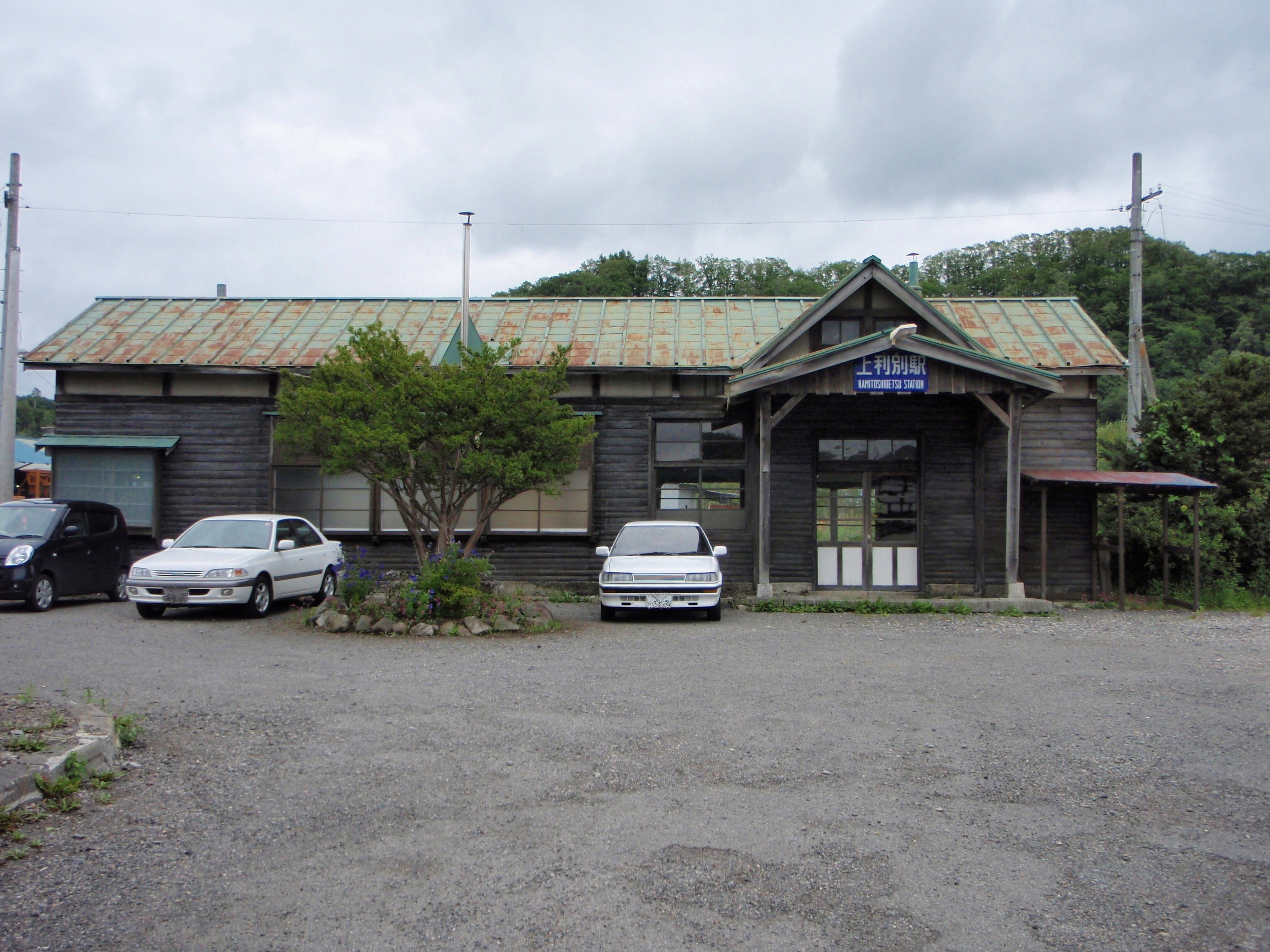 Kami-Toshibetsu Station on Hokkaido Chihokukogen Railway Furusato Ginga Line, in Ashoro, Hokkaido, Japan.